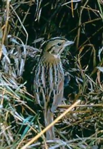 Henslow’s Sparrow